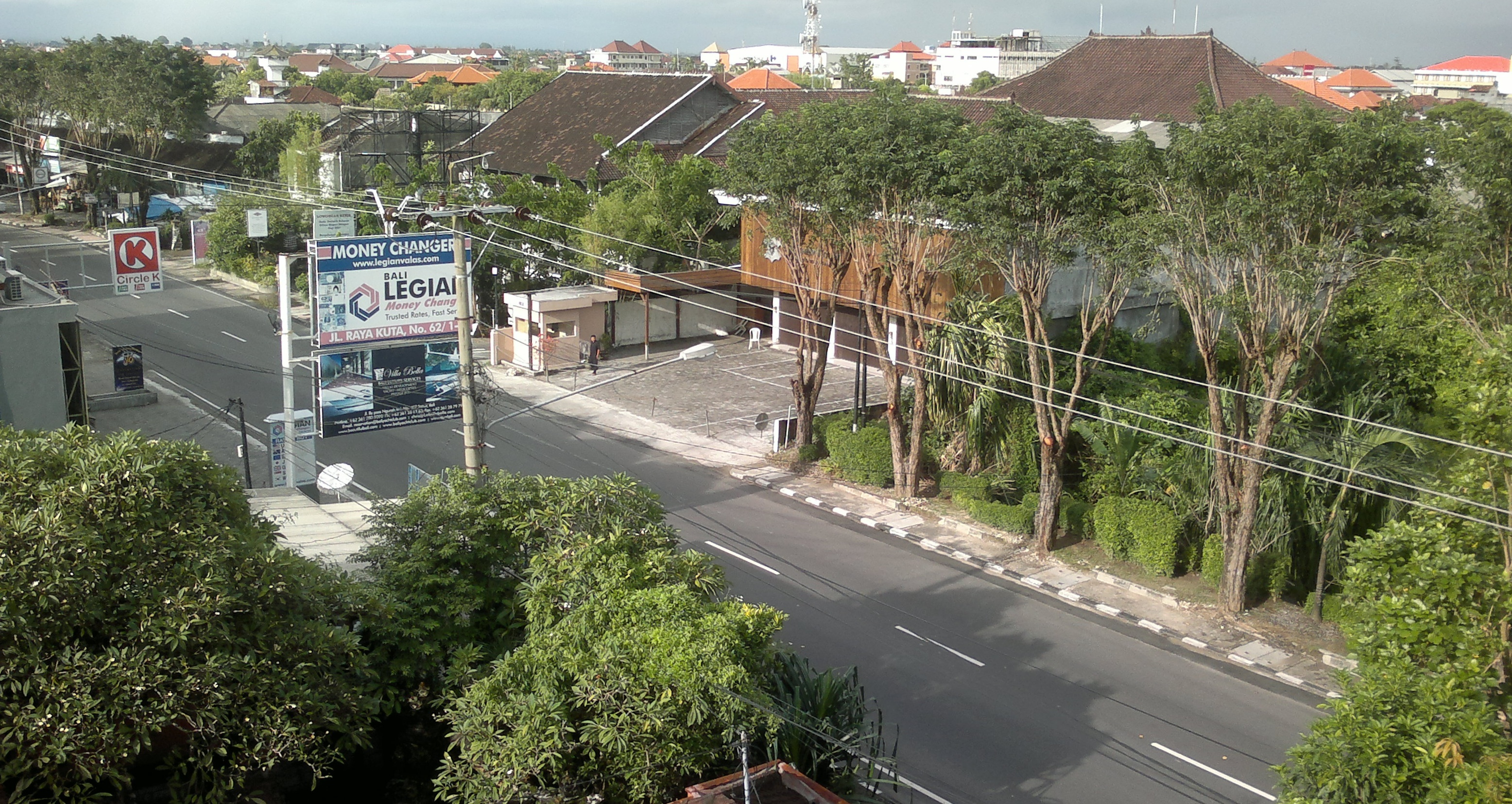 A deserted Balinese street during the 2012 Nyepi holidayBahasa Indonesia: Jalan yang sepi pada Hari Raya Nyepi 2012